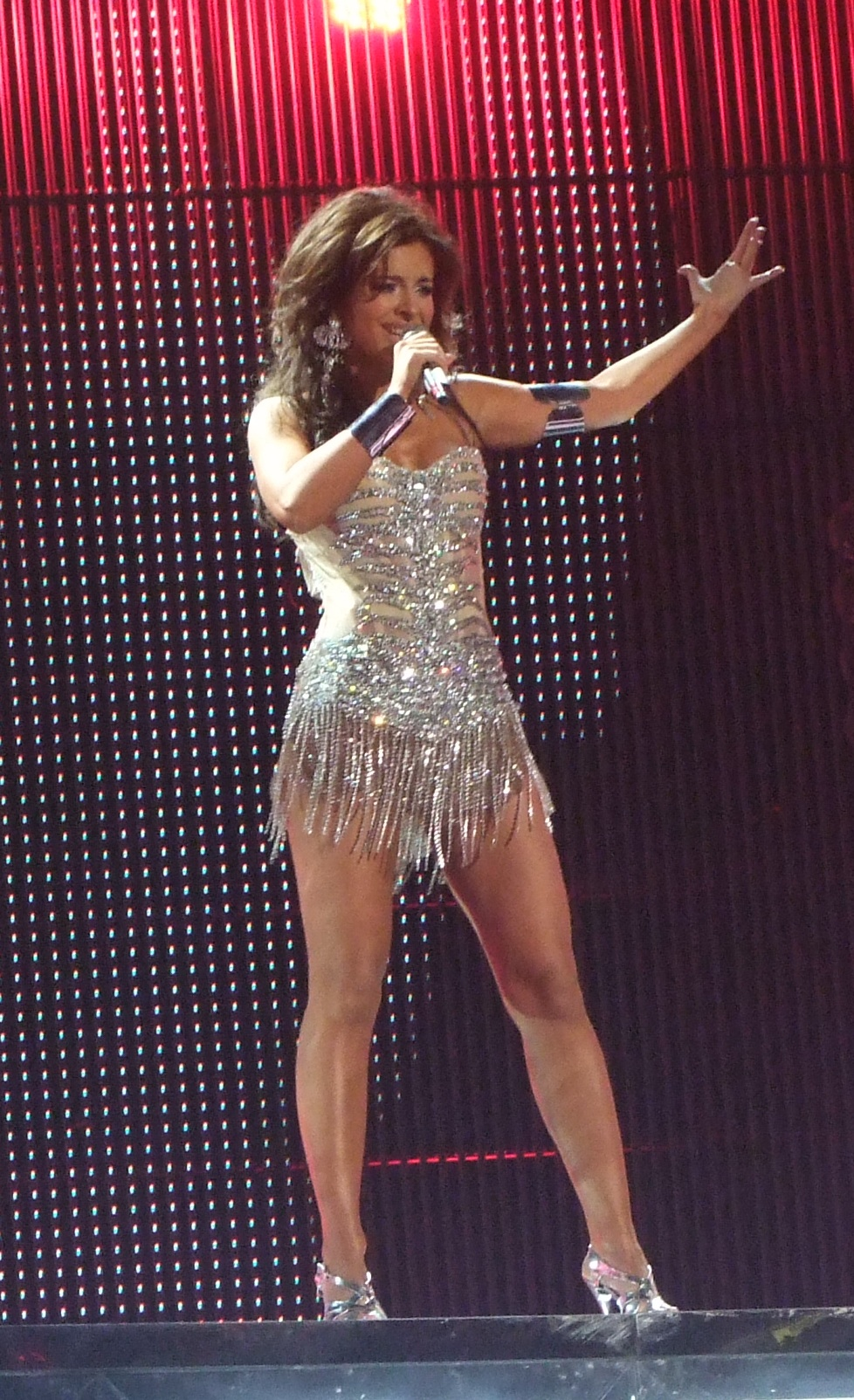 Ani Lorak performing "Shady lady" at Eurovision, 2008.